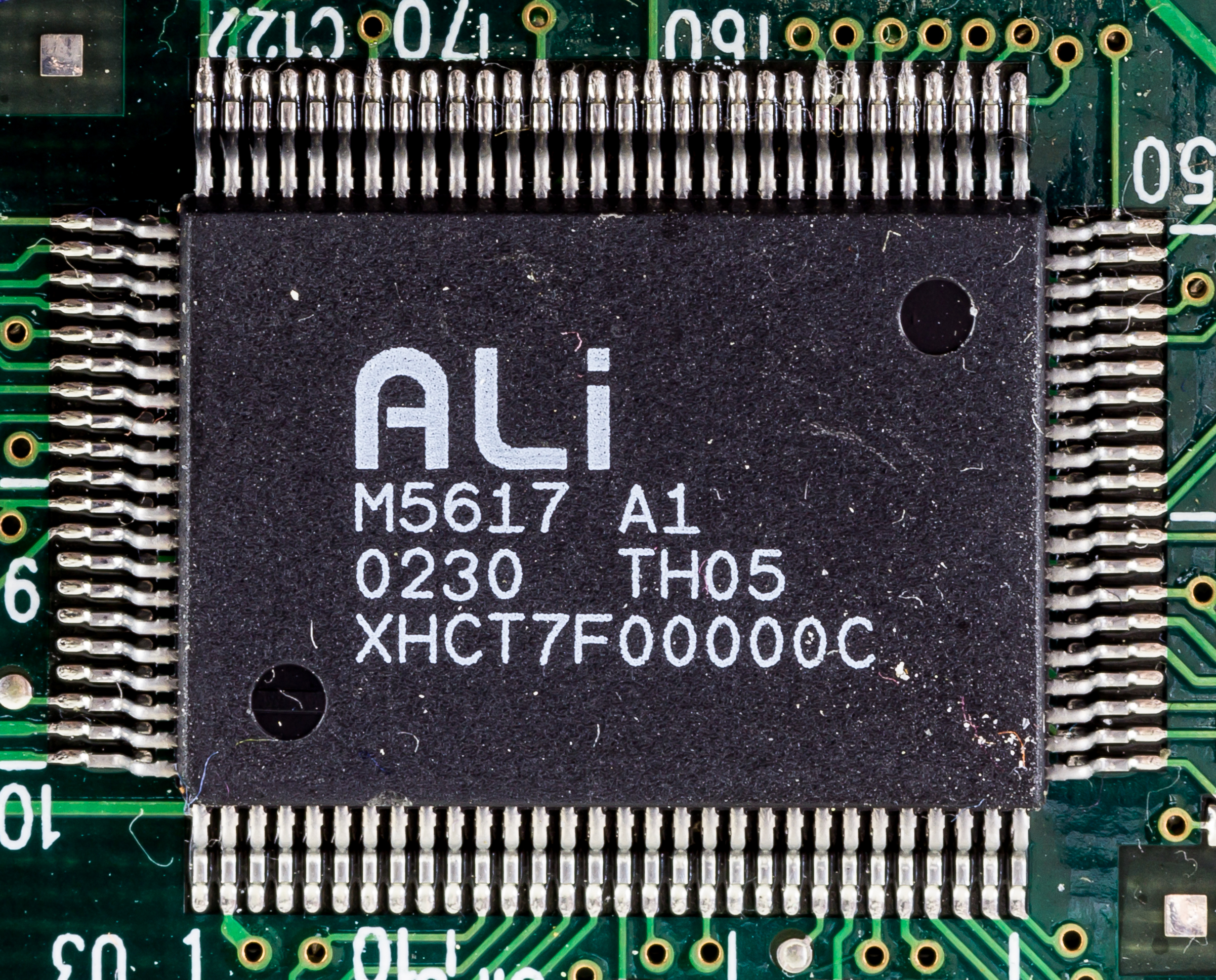 ALi M5617 USB Scanner controller on the controller unit of Epson Perfection 660 Scanner